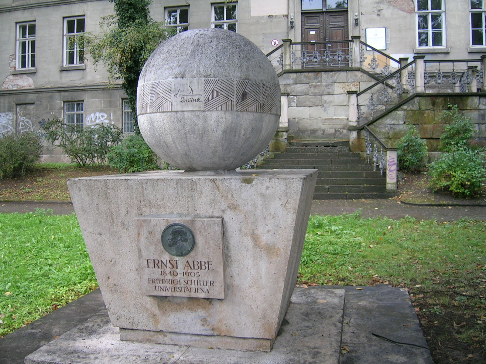 Ernst Abbe memorial stone at the Friedrich Schiller University of Jena, built 1977